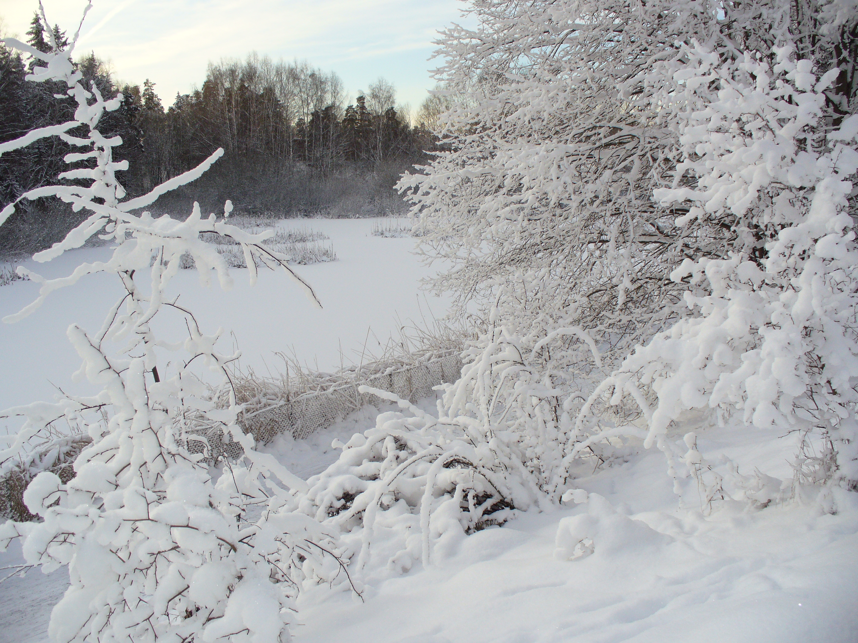 Froen pond at Rudboda neighborhood, Lidingö, Sweden.